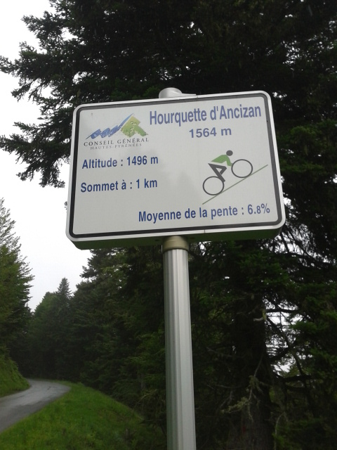 2015 Mountain pass cycling milestone – Hourquette d Ancizan Ancizan